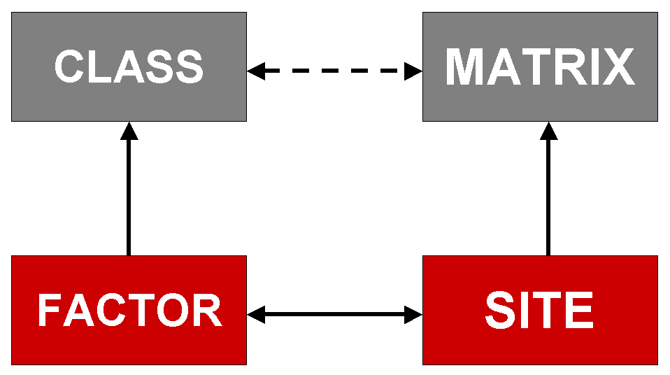 Basic conceptual structure of the TRANSFAC database